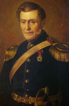 Jens Johan Hjort (1798–1873), norwegian physician. Painting by Knut Bergslien